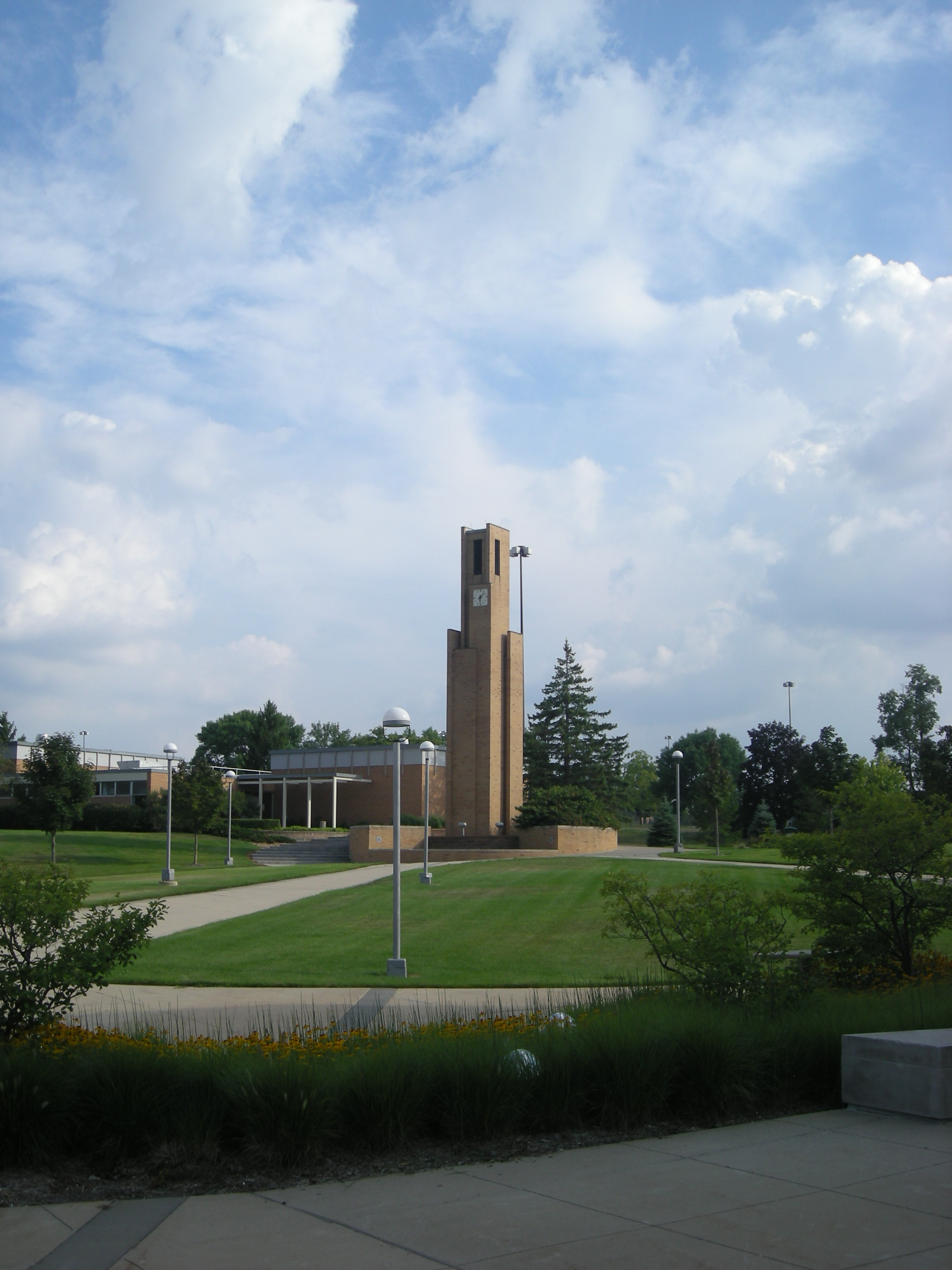 The central campus of Ferris State University in Big Rapids, Michigan (United States).